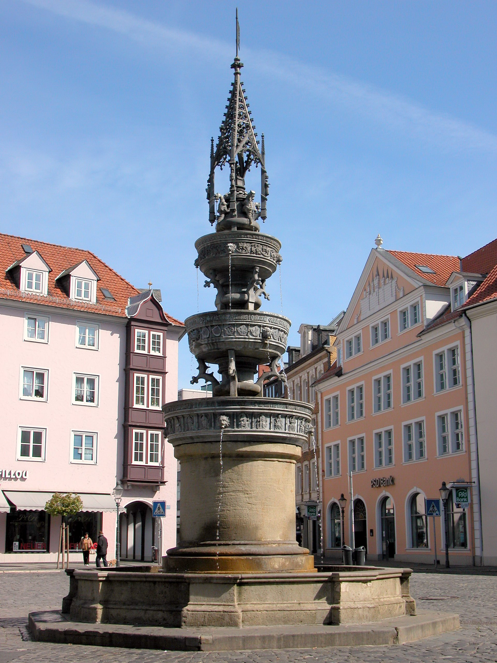 St. Mary’s Fountain in Braunschweig, Germany, as seen from the south, with the House of the Seven Towers in the background to the right.